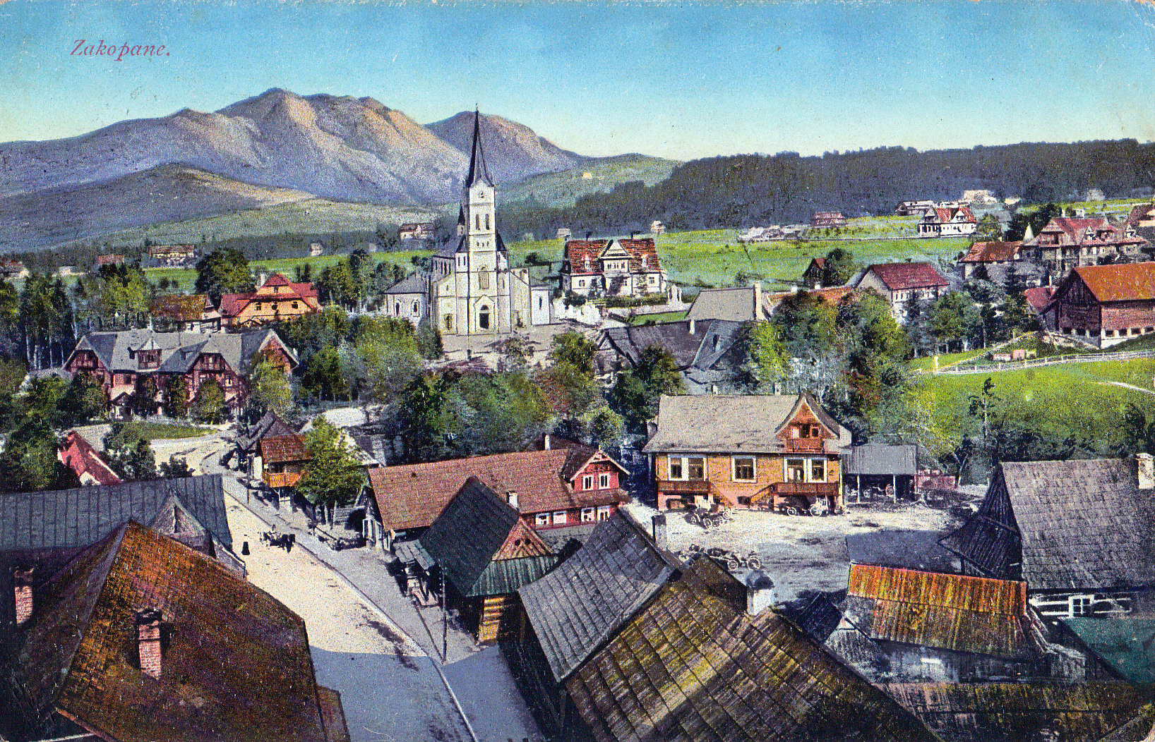 Zakopane. General view. Postcard from 1916. Publisher: Wydawnictwo Salonu Malarzy Polskich w Krakowie.